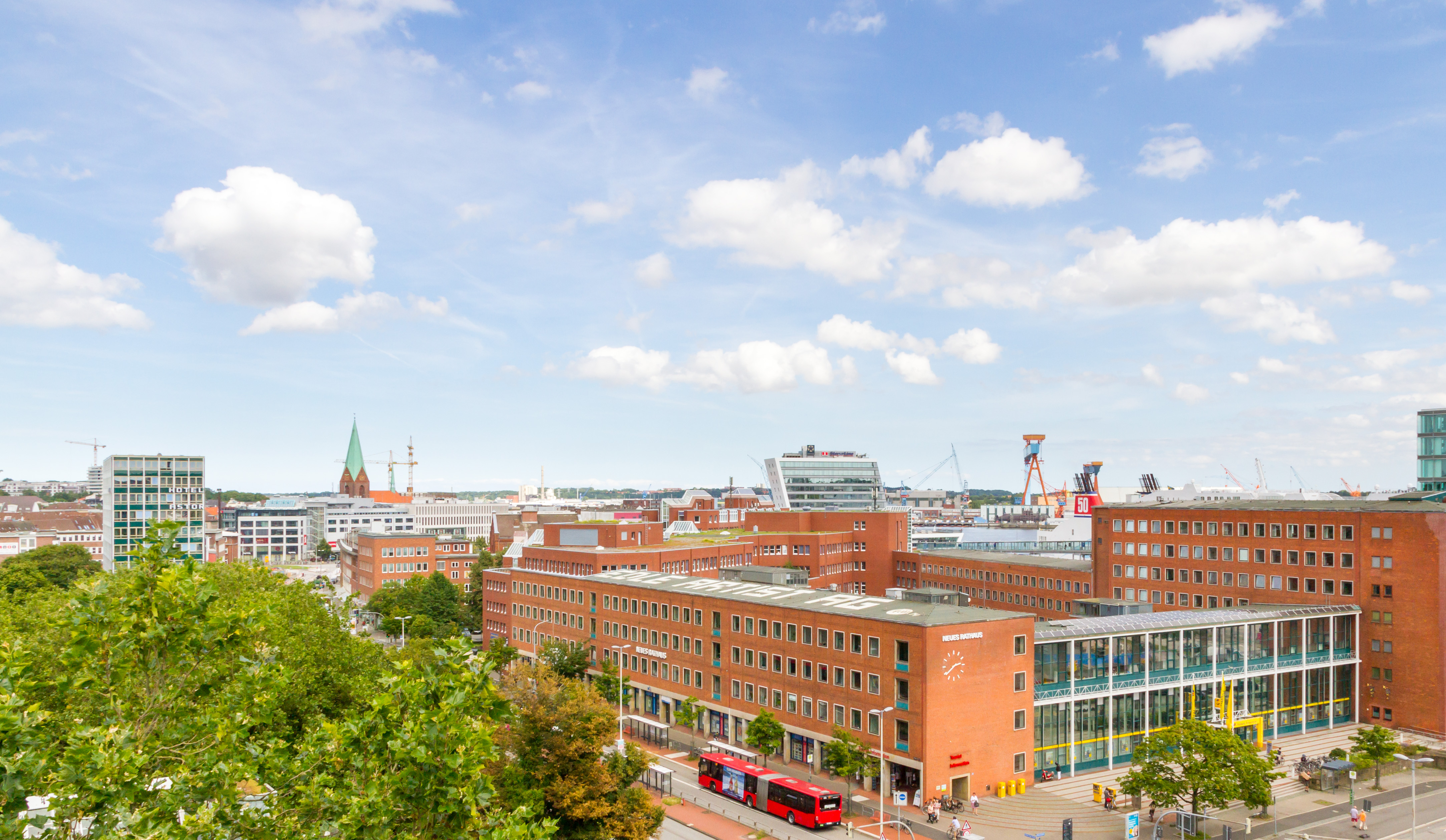 panoramic view of the city - Kiel, Schleswig-Holstein, Germany